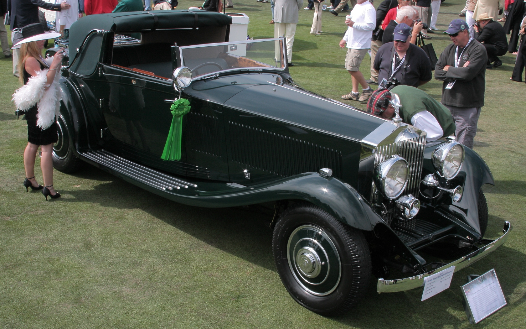 1933 Rolls-Royce Phantom II Continental Gurney Nutting Sedanca DHC at Pebble Beach Concours d'Elegance, Aug 16, 2009